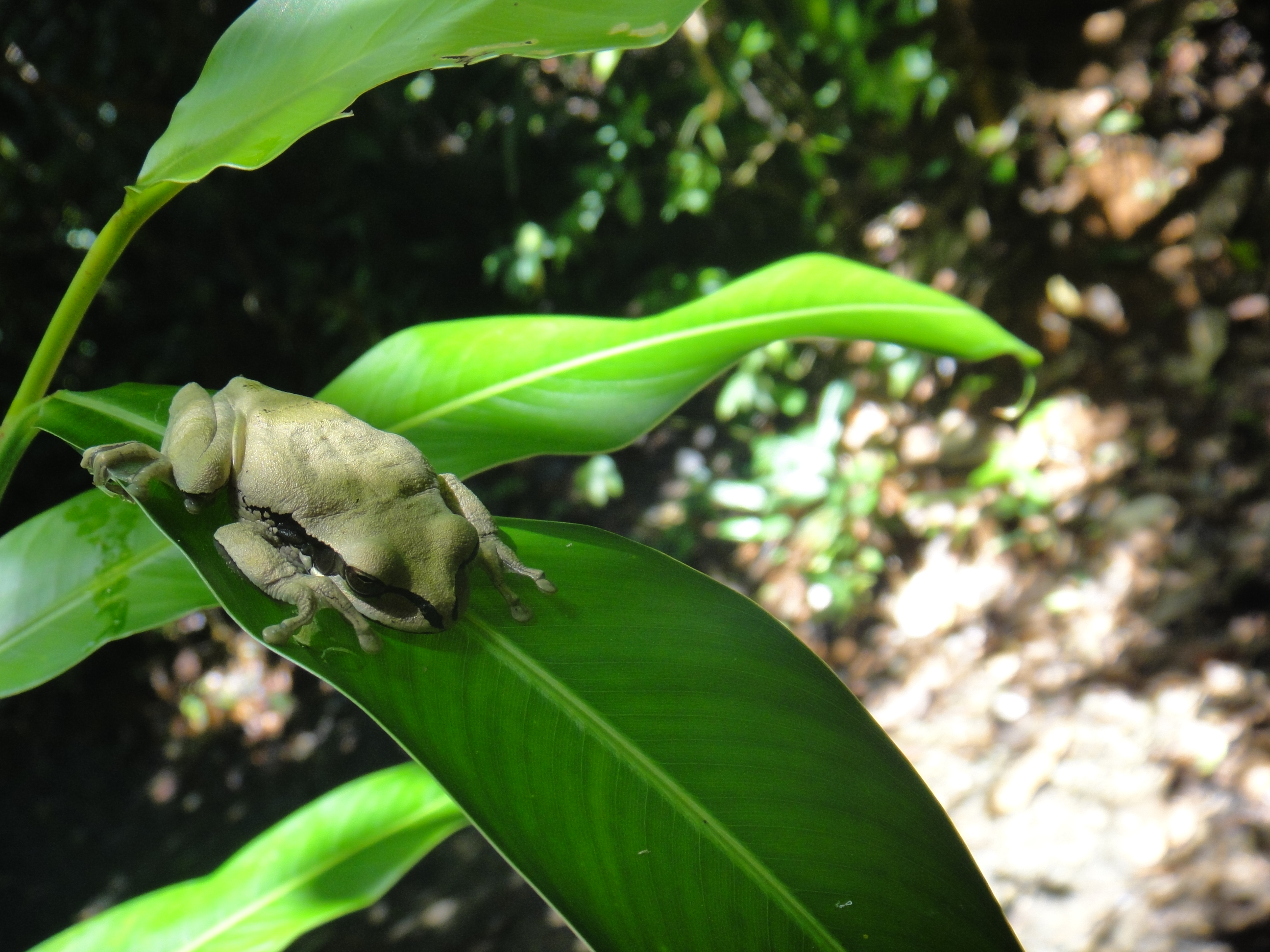 Photo of a masked tree frog taken while it rested during the day in Manuel Antonio National Park, Costa Rica. The species is probably Smilisca phaeota.